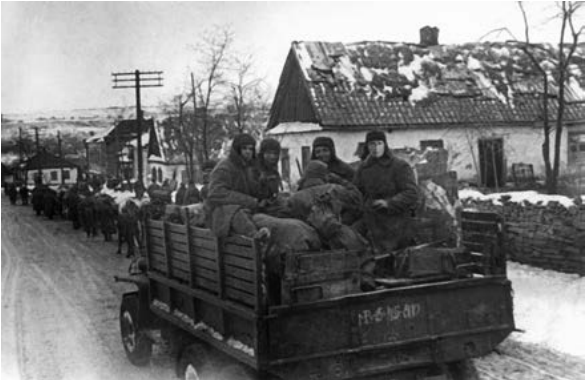 Soviet troops entering Krivoy Rog during its liberation in February 1944